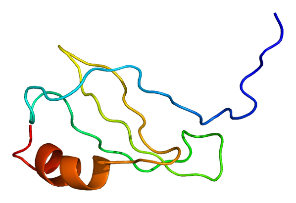 Structure of the CXCL11 protein. Based on PyMOL rendering of PDB 1rjt.